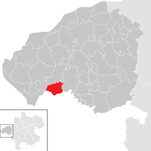 district Braunau am Inn